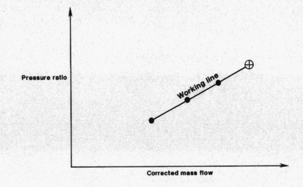 Working line on a compressor performance characteristic map